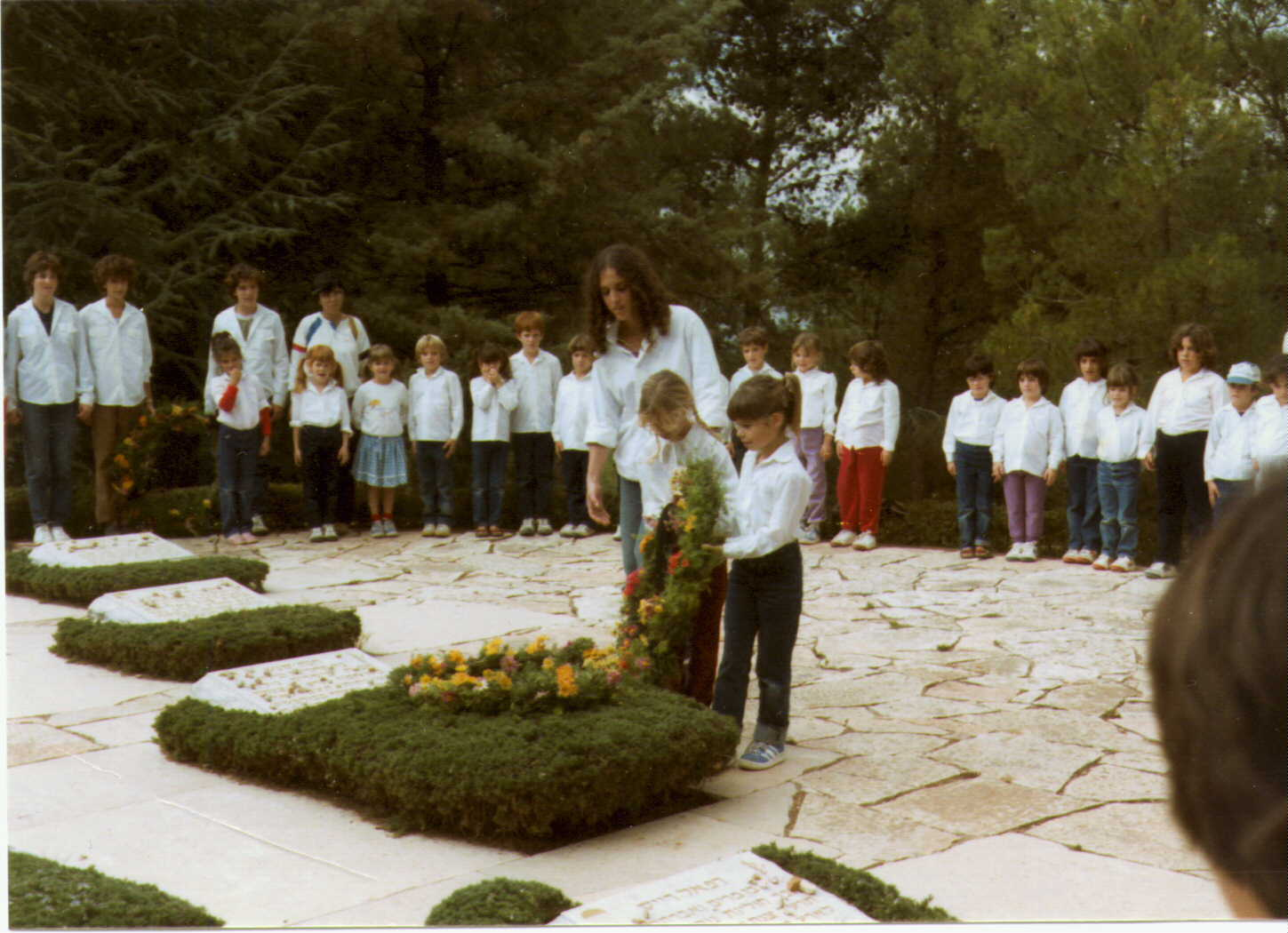 Memorial to Hannah senesh, Geography of Israel